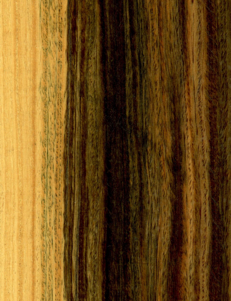 Cropped version of: Summary Description